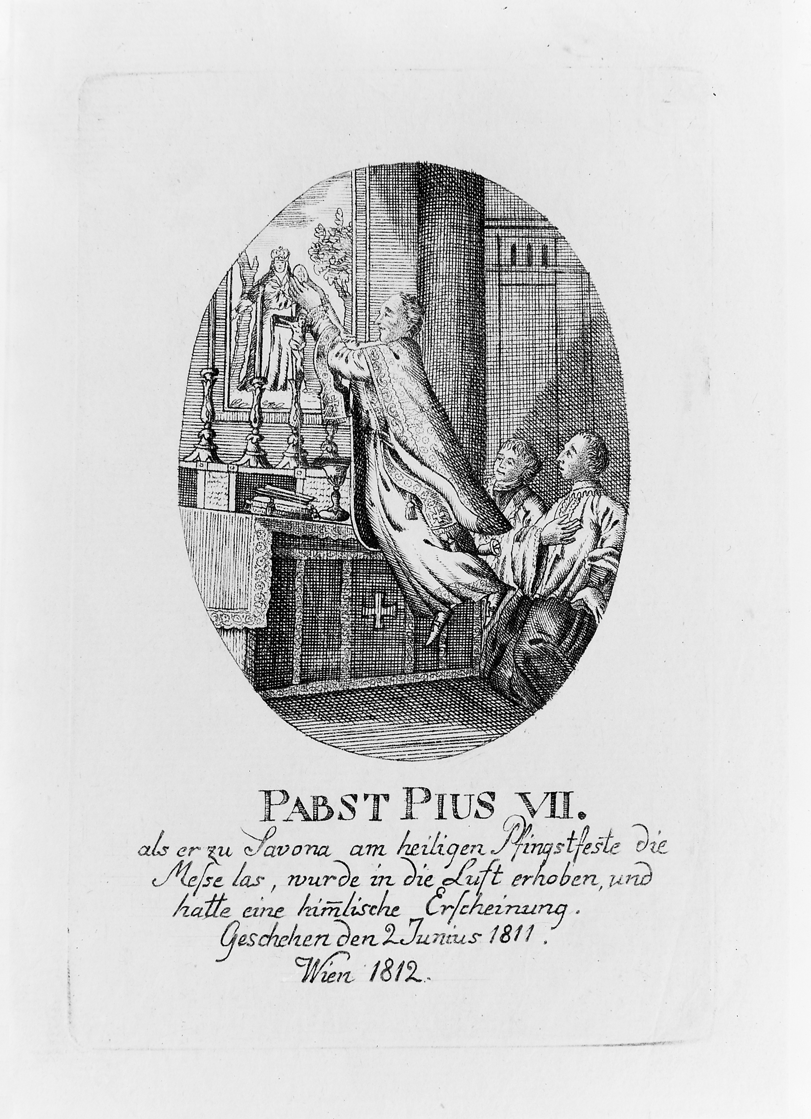 Leviation of pope Pius VII while Reading Mass at Savona on 2nd june 1811. (prayer leaflet) Wellcome Images Keywords: miracles; Faith Healing; Pius VII